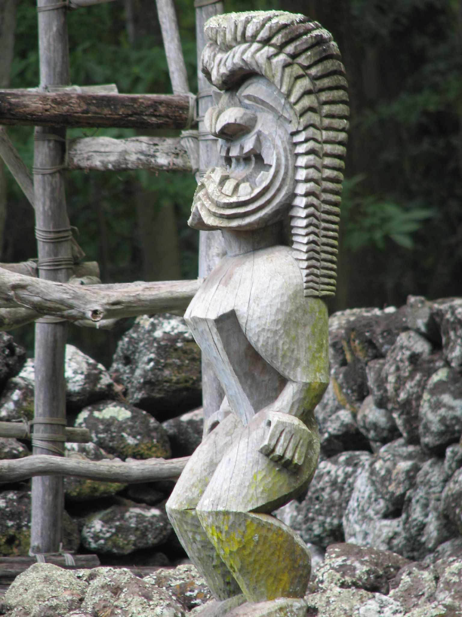 The temple idol represents the god it was dedicated to. This is Ku, the chief Hawaiian god, in his form as the god of war - Kukailimoku, meaning "Ku, Snatcher of Land." Interestingly, this heiau was originally dedicated to a fertility and agricultural goddess. Which is probably some sort of comment on something. (Actually, heiau were often rededicated to new gods, depending on the needs of the time, or if it was felt the temple had lost its power.)